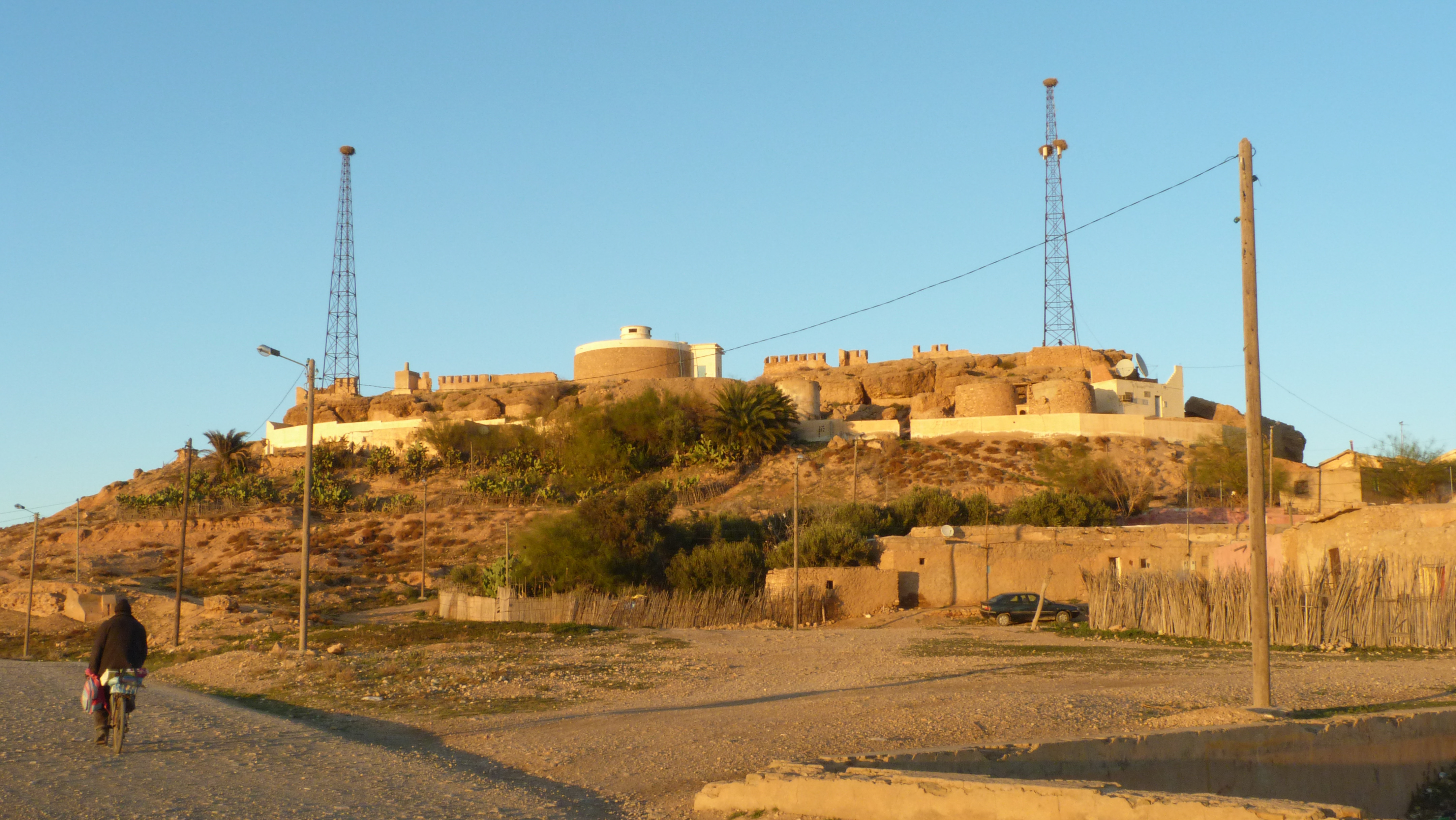 The ruins of Qasba in the city of , MoroccoTaourirt, Morocco Oriental region.